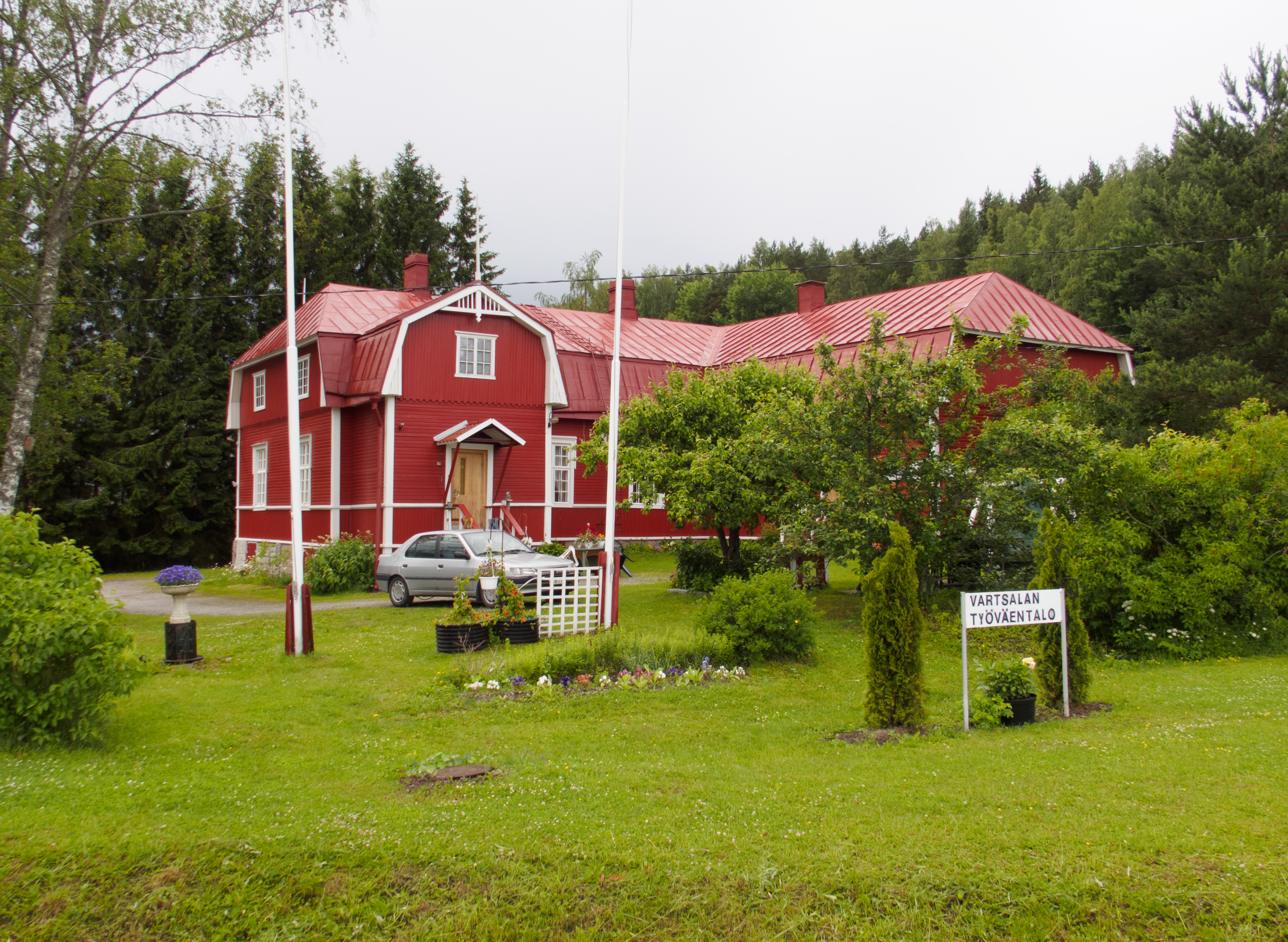 Työväentalo (workers' hall), Kaninkolantie, Vartsala, Salo, Finland. June 2014.